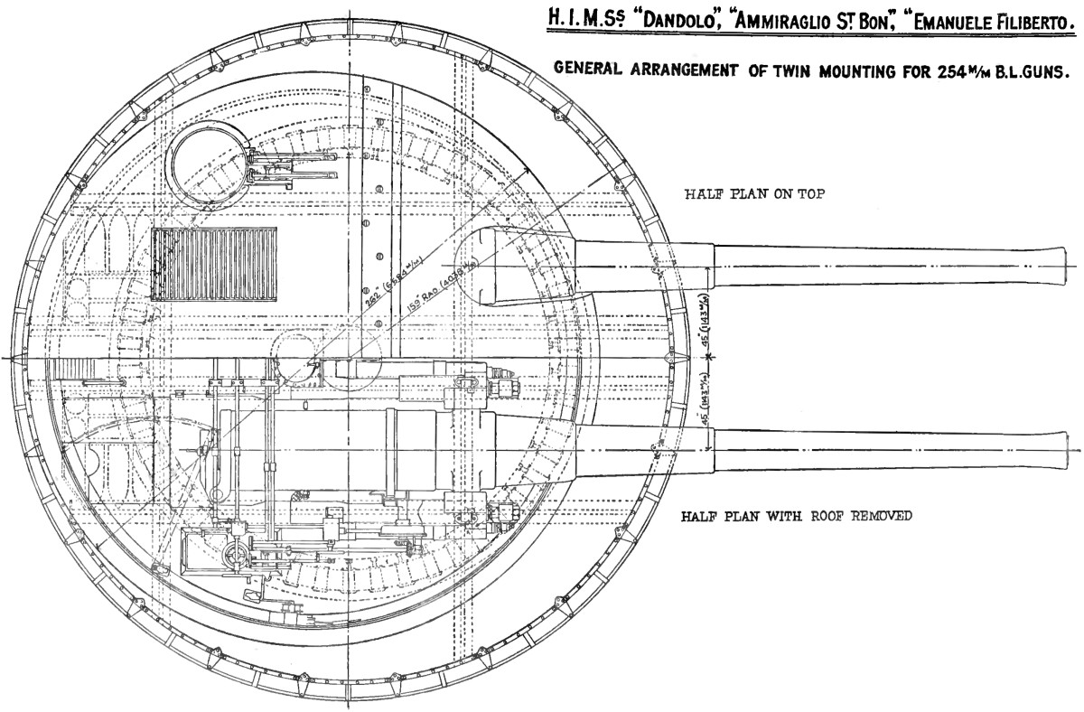 Plan diagram of Elswick Ordnance 10-inch 40 calibre gun turret of Italian Ammiraglio di Saint Bon class battleship commissioned 1901.